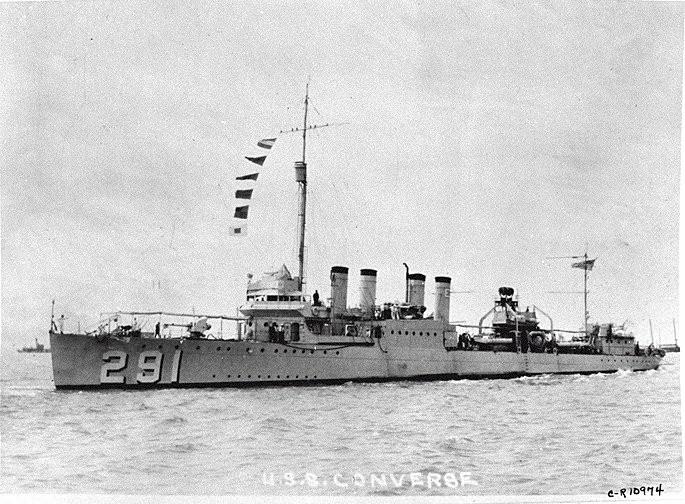 The U.S. Navy destroyer USS Converse (DD-291), in the 1920s.